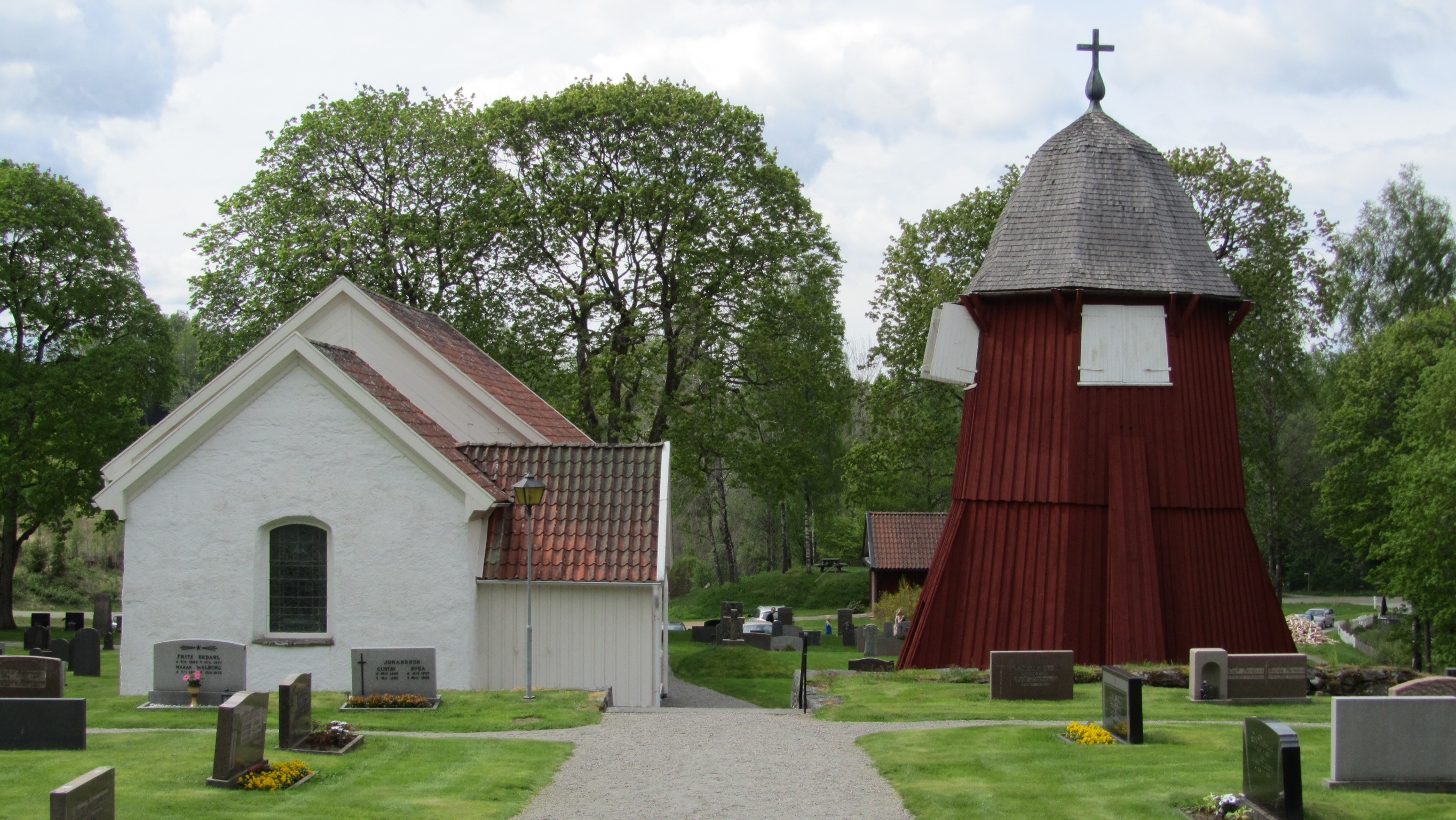 södra Åsarps mediveal church, near Limmared village, Västergötland, Sweden